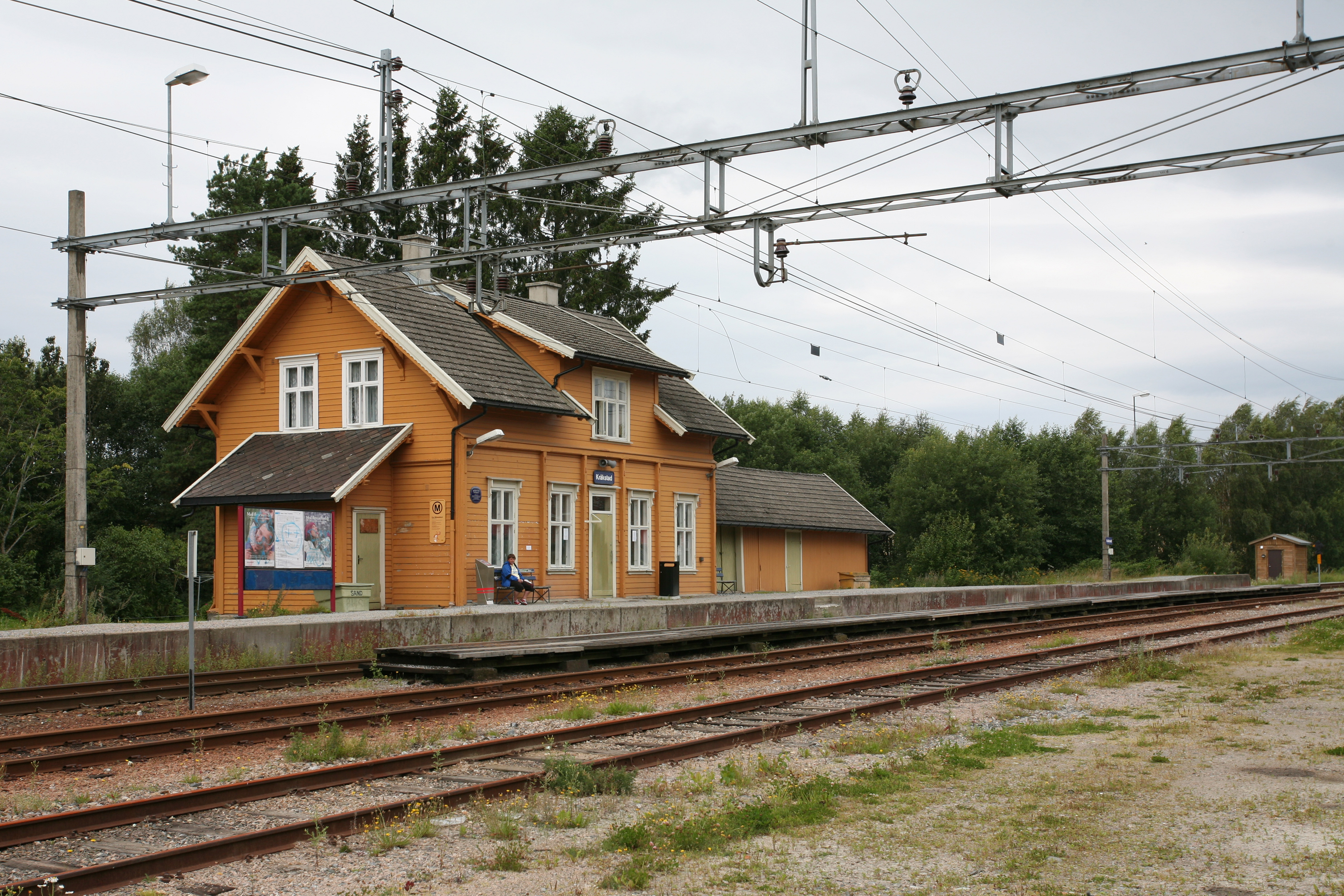 Picture of Kråkstad Railway Station (Norway)